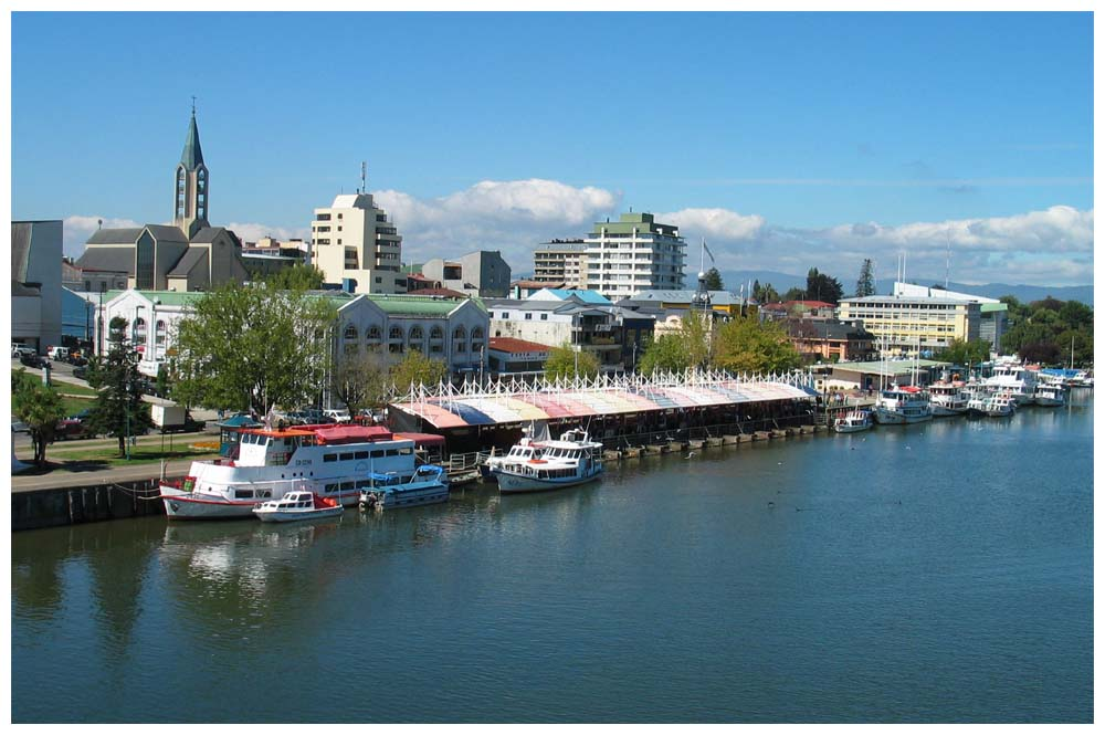 View of riverside market and downtown Valdivia, Chile